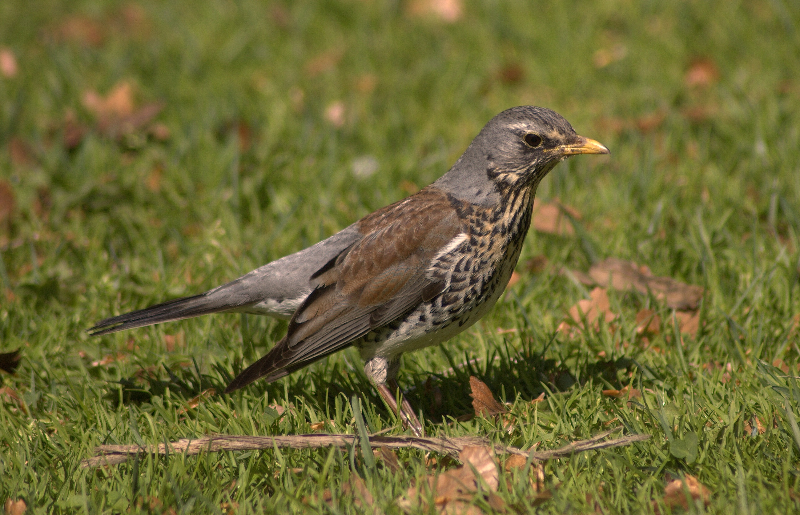 This bird is called Fieldfare in English (the scientific name is Turdus pilaris). It is called Björktrast in Swedish. Location: Shot in the park Slottsskogen in central Gothenburg, Sweden. Camera: Nikon D50 using a 70-300mm lens (at 300mm when the photo was taken).